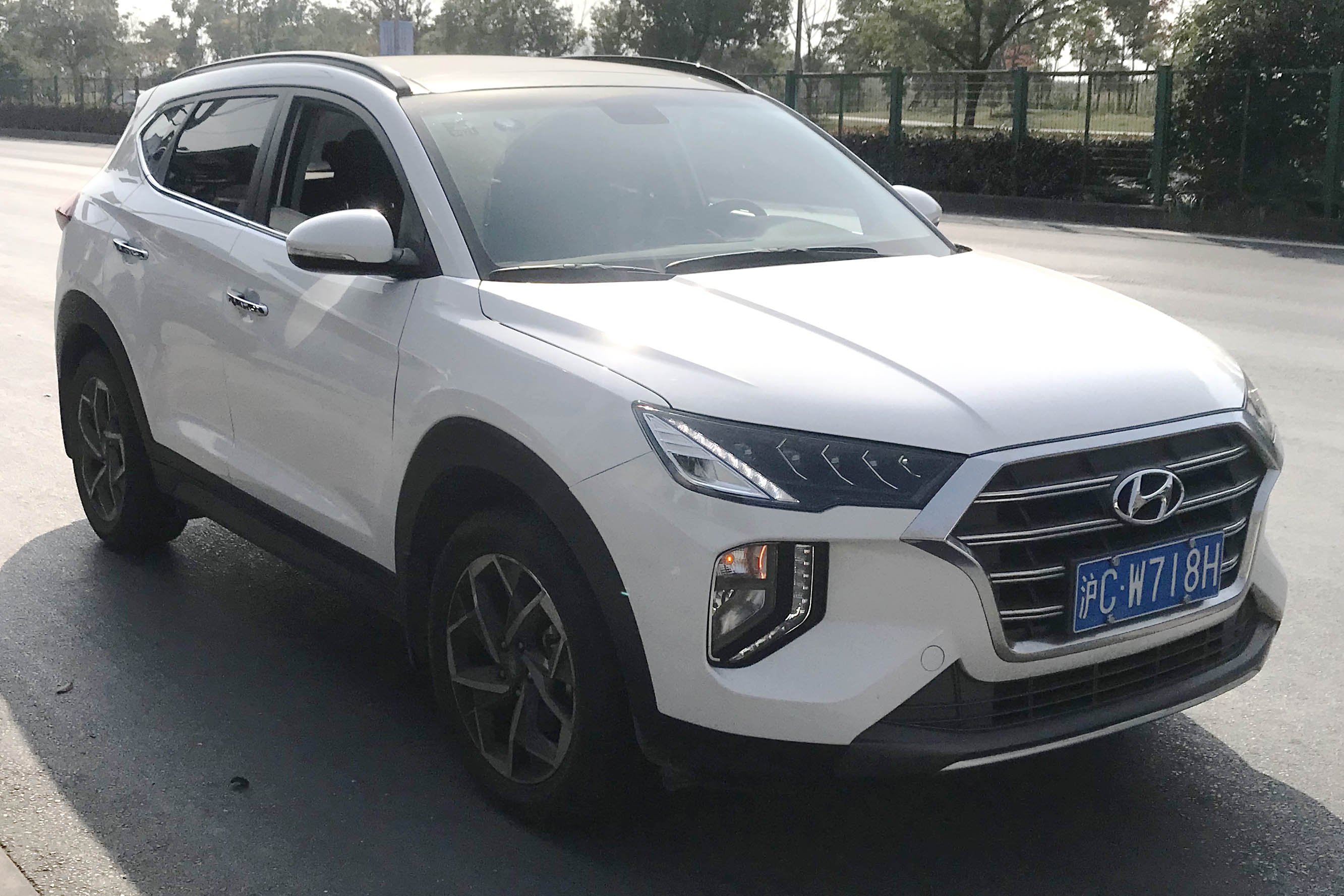 Hyundai Tucson (TL) Chinese facelift front